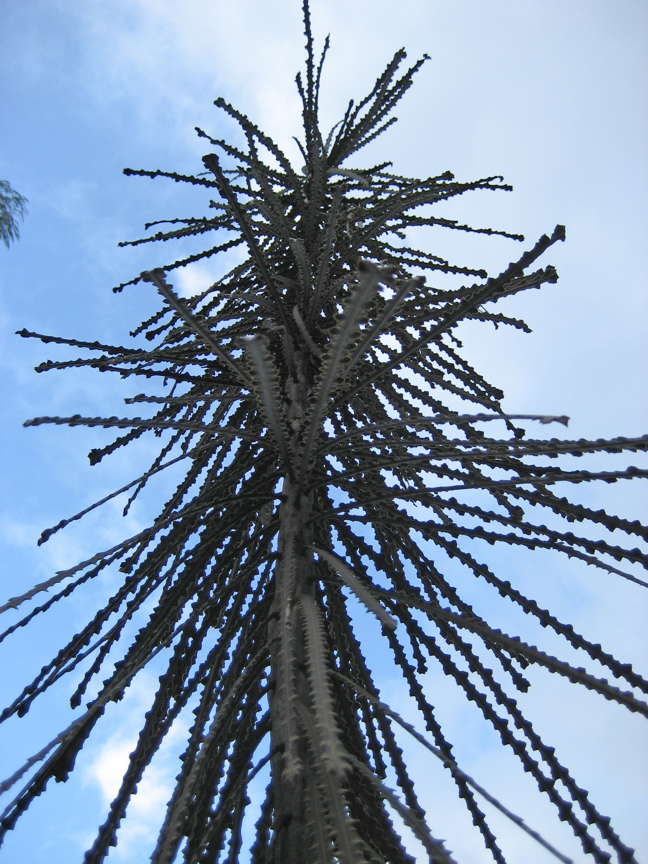 Pseudopanax ferox, juvenile tree with long coarsely-toothed leaves. Auckland, New Zealand